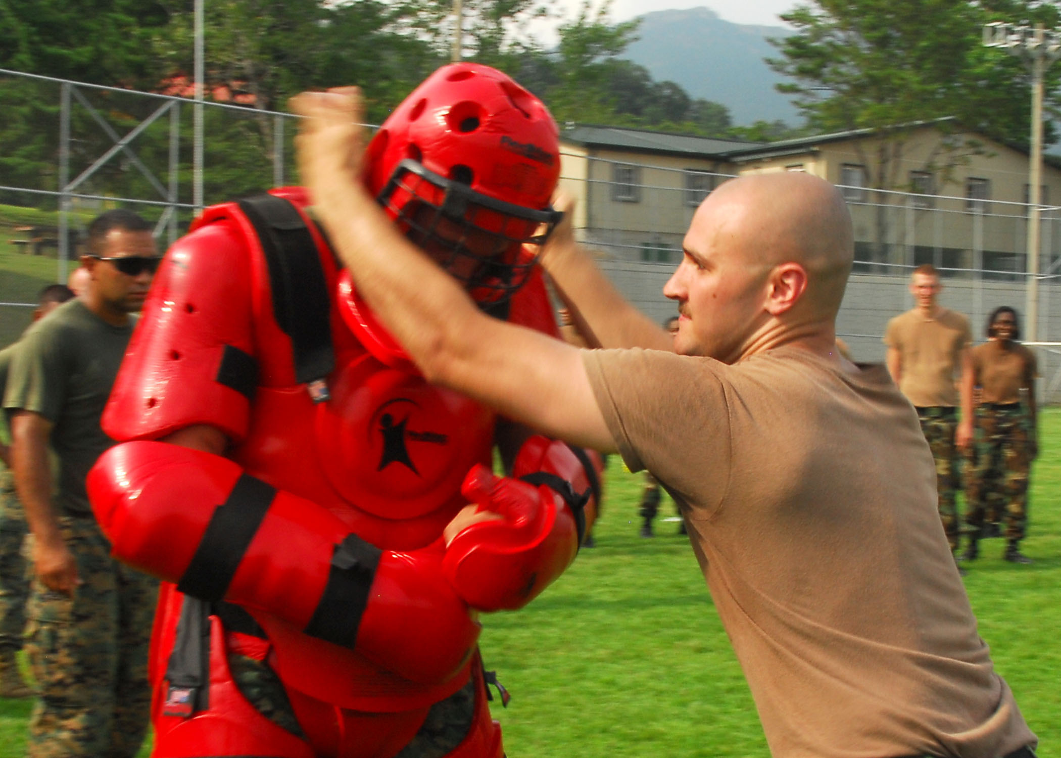 imcom.korea.army.mil CHINHAE, Republic of Korea (Aug. 18, 2009) Master-At-Arms 3rd Class Matthew Motley, of Alton, Ill., trains with Marines from Fleet Anti-terrorism Security Team, Company Pacific (FASTPAC) on Marine Corps martial arts techniques on the baseball field at Commander, Fleet Activities Chinhae (CFAC). Fleet Anti-terrorism Security Team companies maintain forward-deployed platoons at Navy installations around the world in order to quickly respond to crises and are frequently tasked to provide anti-terrorism and weapons training to other security personnel. (U.S. Navy photo by Mass Communication Specialist 1st Class Bobbie G. Attaway)